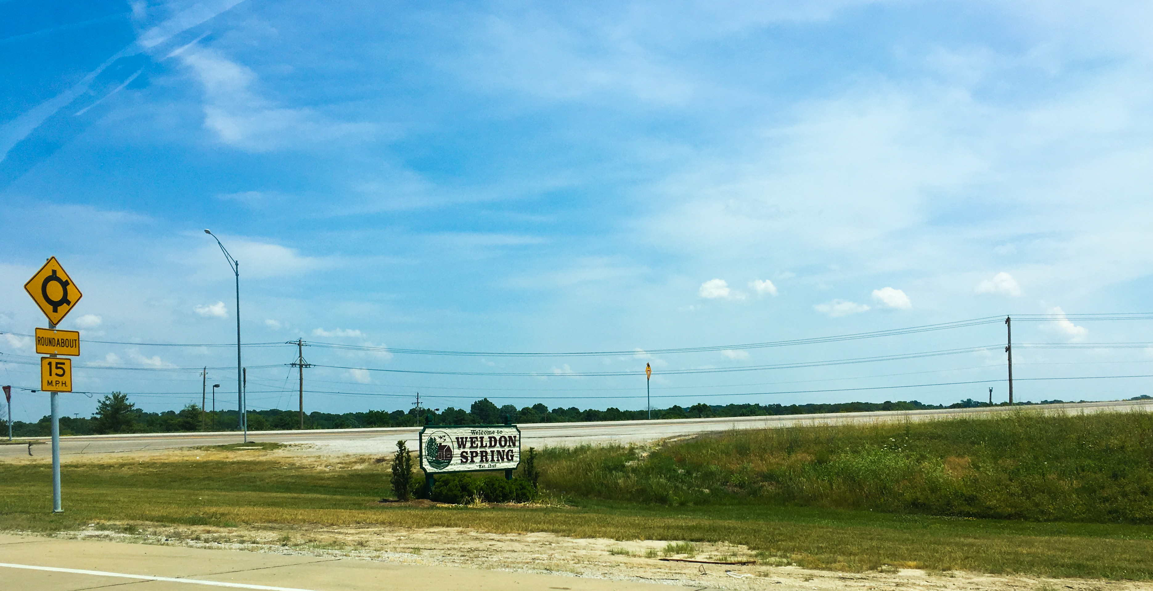 Welcome Sign, Weldon Springs, Missouri